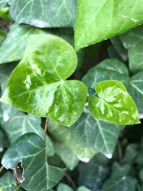 عشقة متسلقة - لبلاب متسلق Hedera